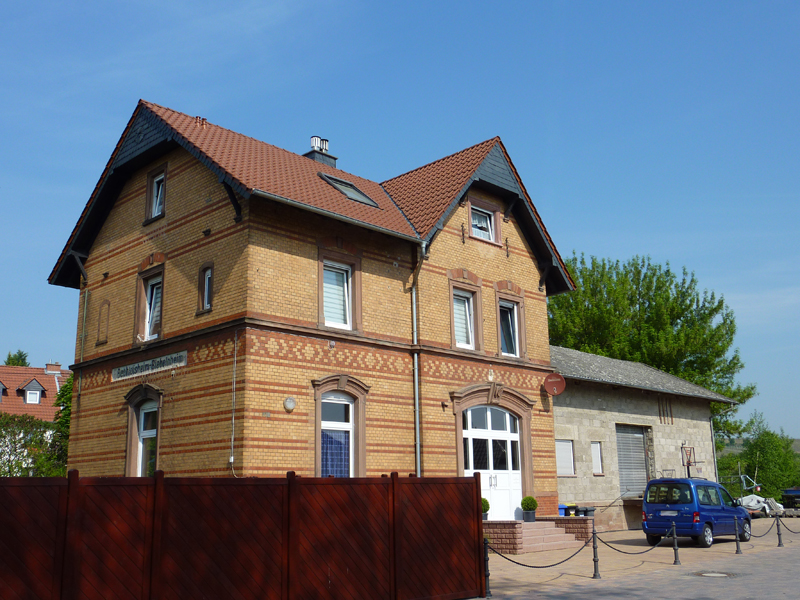 Ancient railway station Bechtolsheim-Biebelnheim in Bechtolsheim at the Bodenheim–Alzey Railway